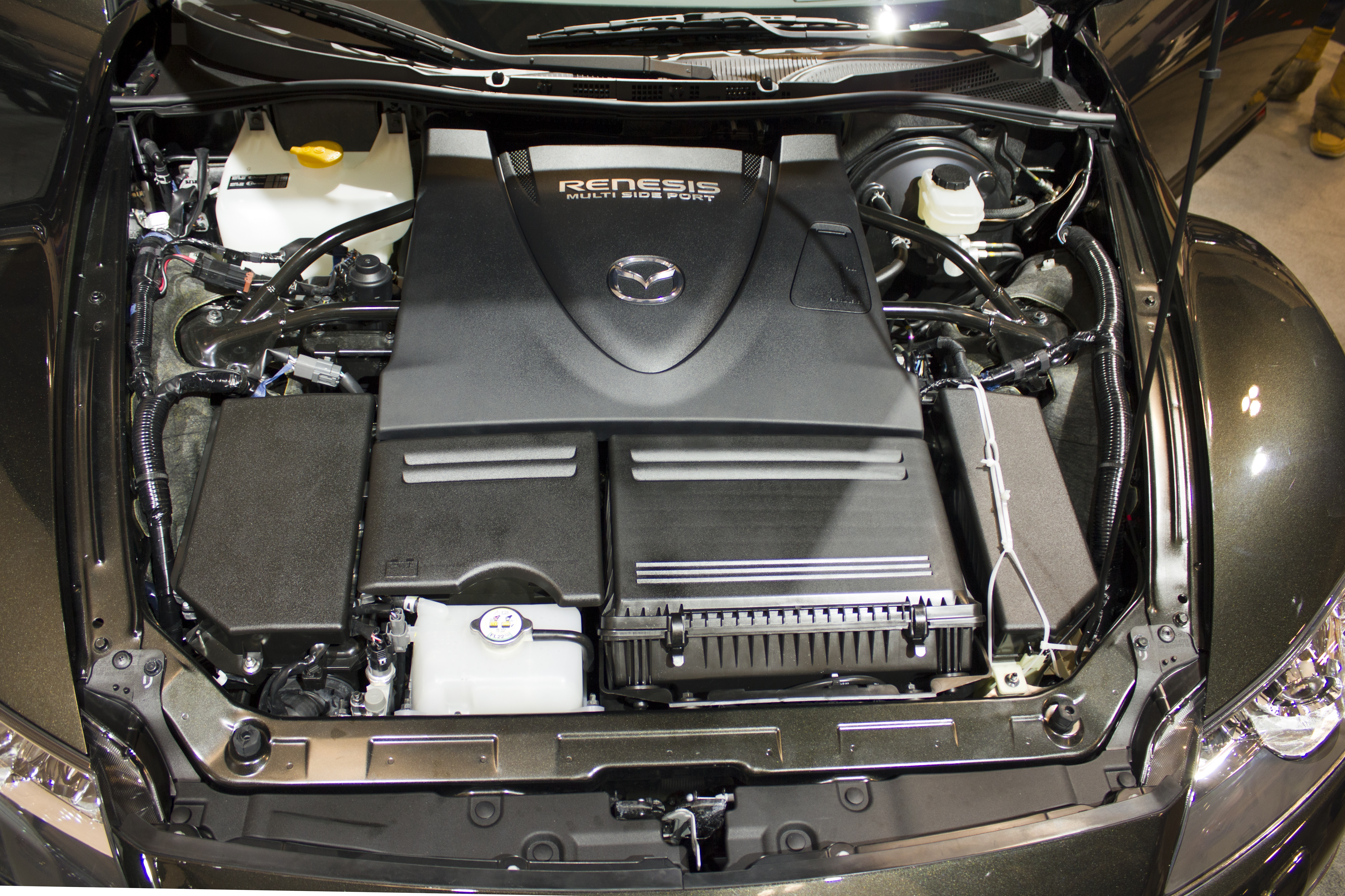 Taken at the 2011 Canadian International Auto Show